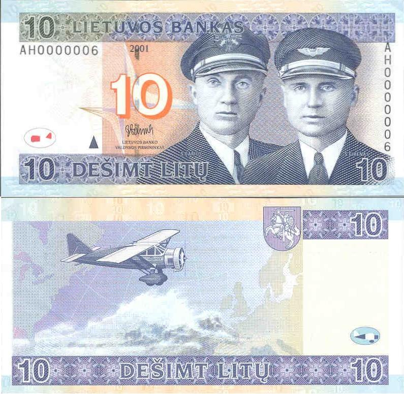 10 litai banknote. Released in 2001.